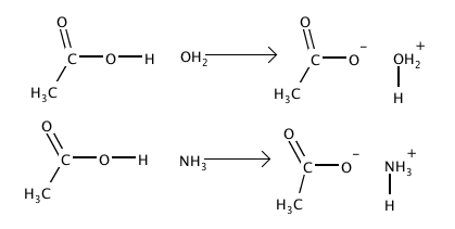 reactions of acetic acid